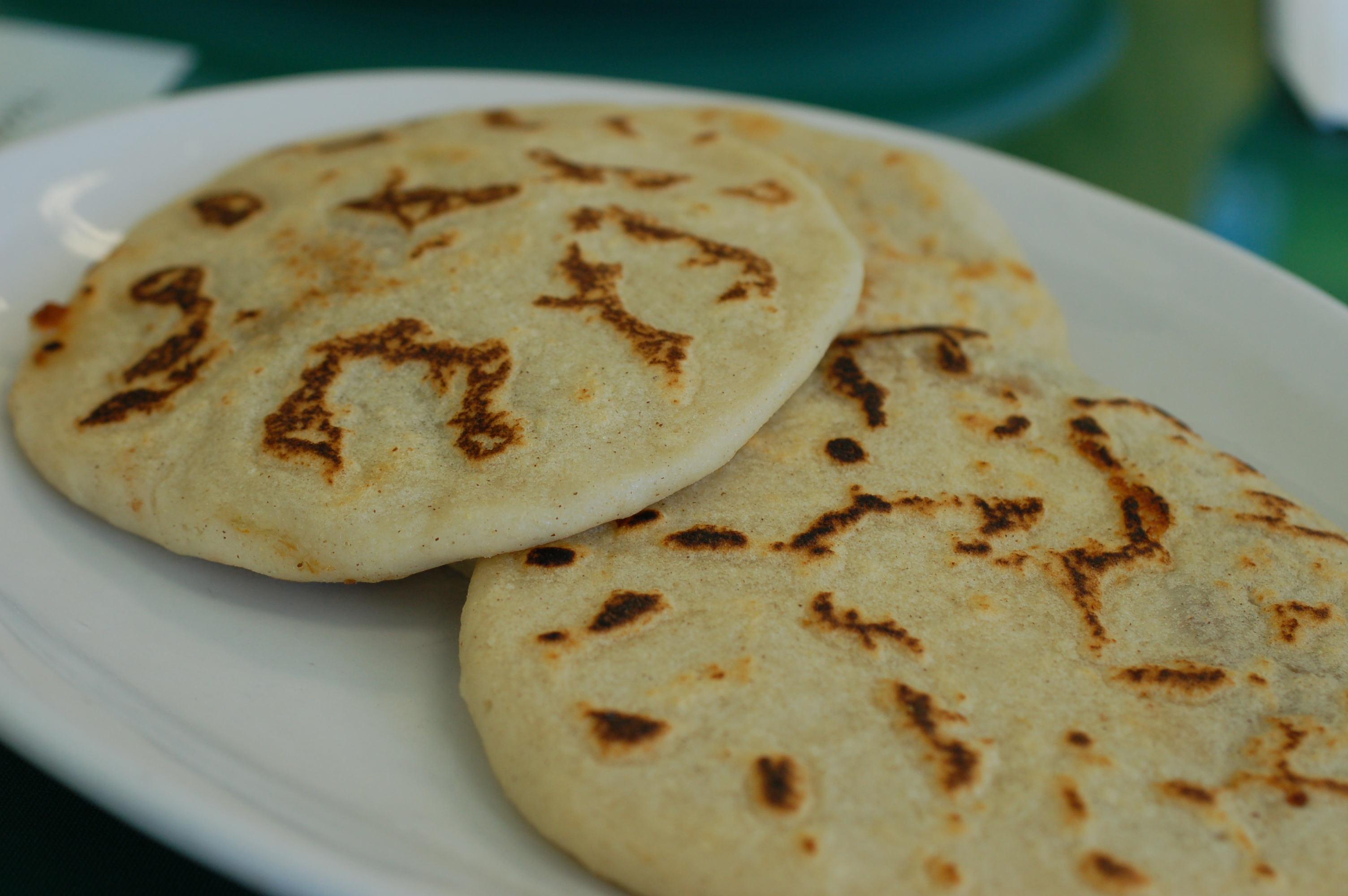 Pupusas seem so plain on the outside. They are misleading. Meat, cheese and beans inside! Heaven in one bite!